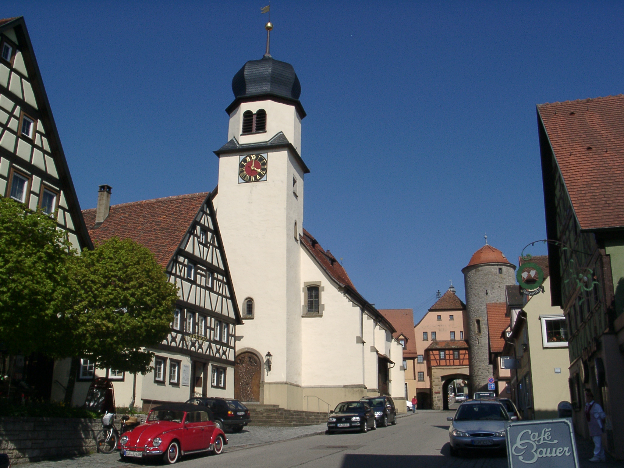 The main road and parochial church in Langenburg